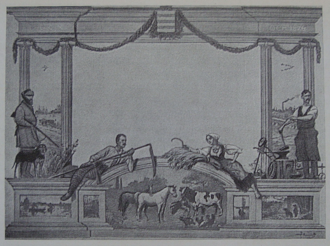 Emblem of agricultural exhibition in Minsk at 1901 AD, organized by Minsk agricultural society